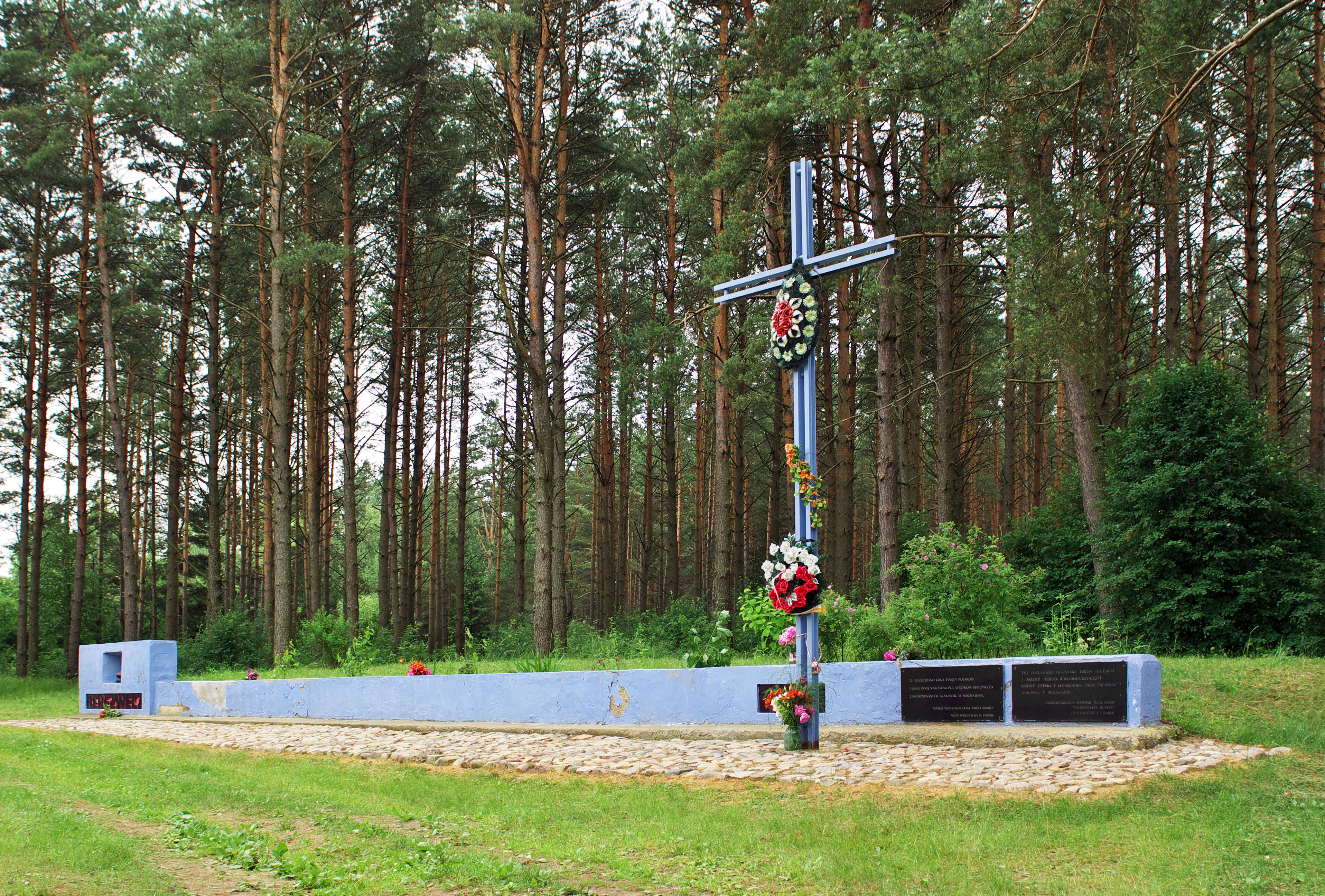 Memorial at the place of execution column of prisoners Glubokskiy prison near the village of Mikalaeva